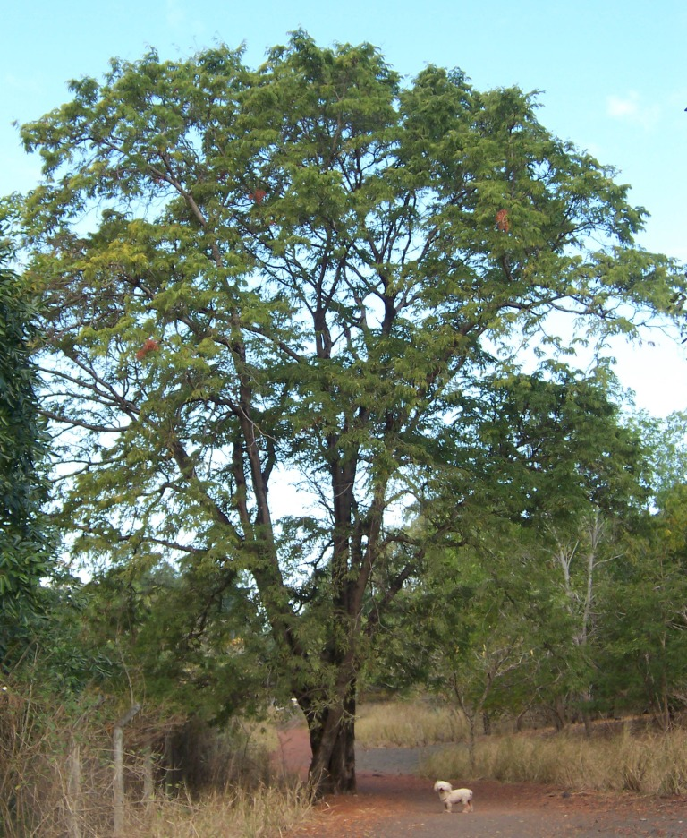 Tamarind tree(Tamarindus indica) general pattern of the tree, Réunion island